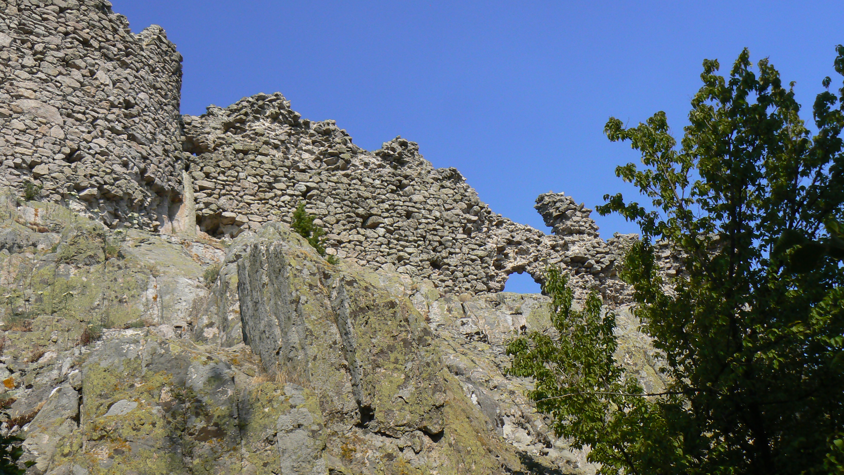 Bottom-up view at the outside wall of Ustra fortress, Rhodope Mountains, Bulgaria